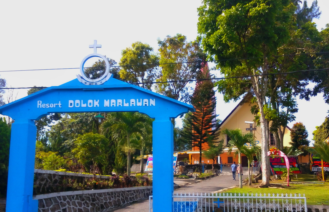 HKBP Dolok Marlawan, Church in Dolok Marlawan, Jorlang Hataran, Simalungun